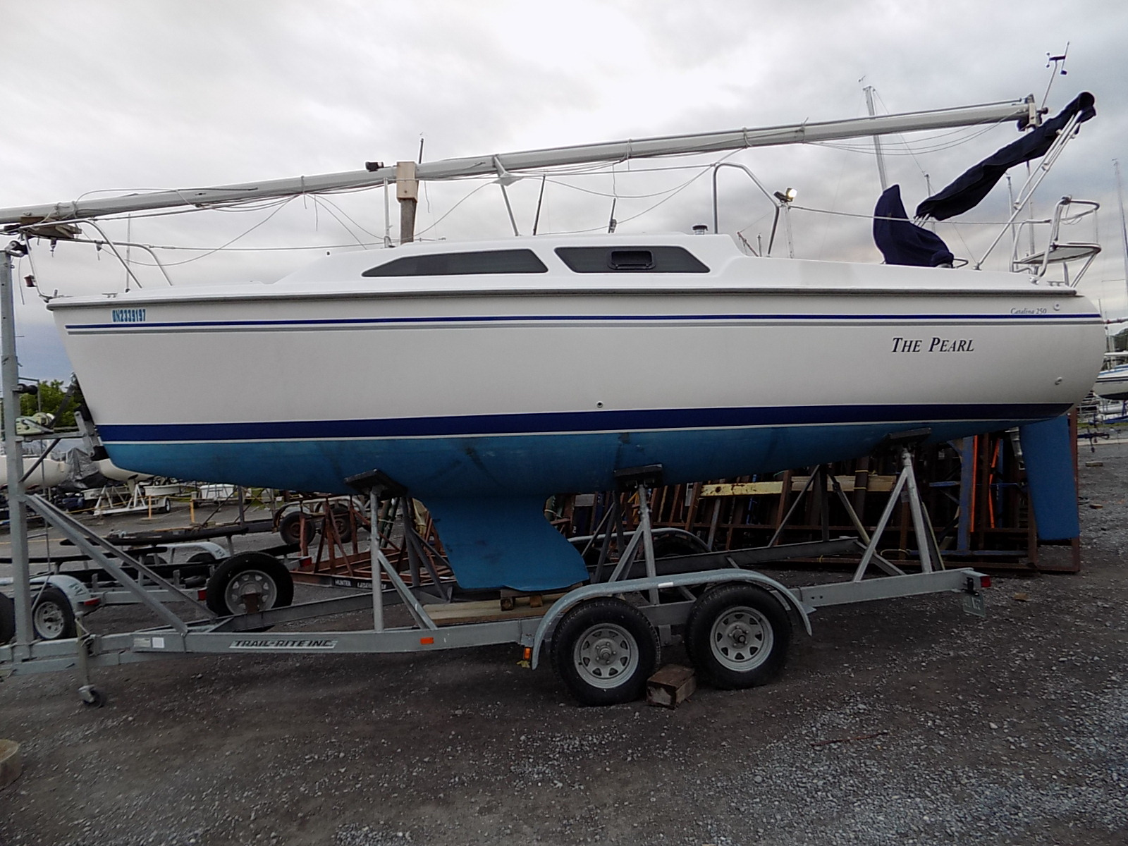 A Catalina 250 sailboat named The Pearl